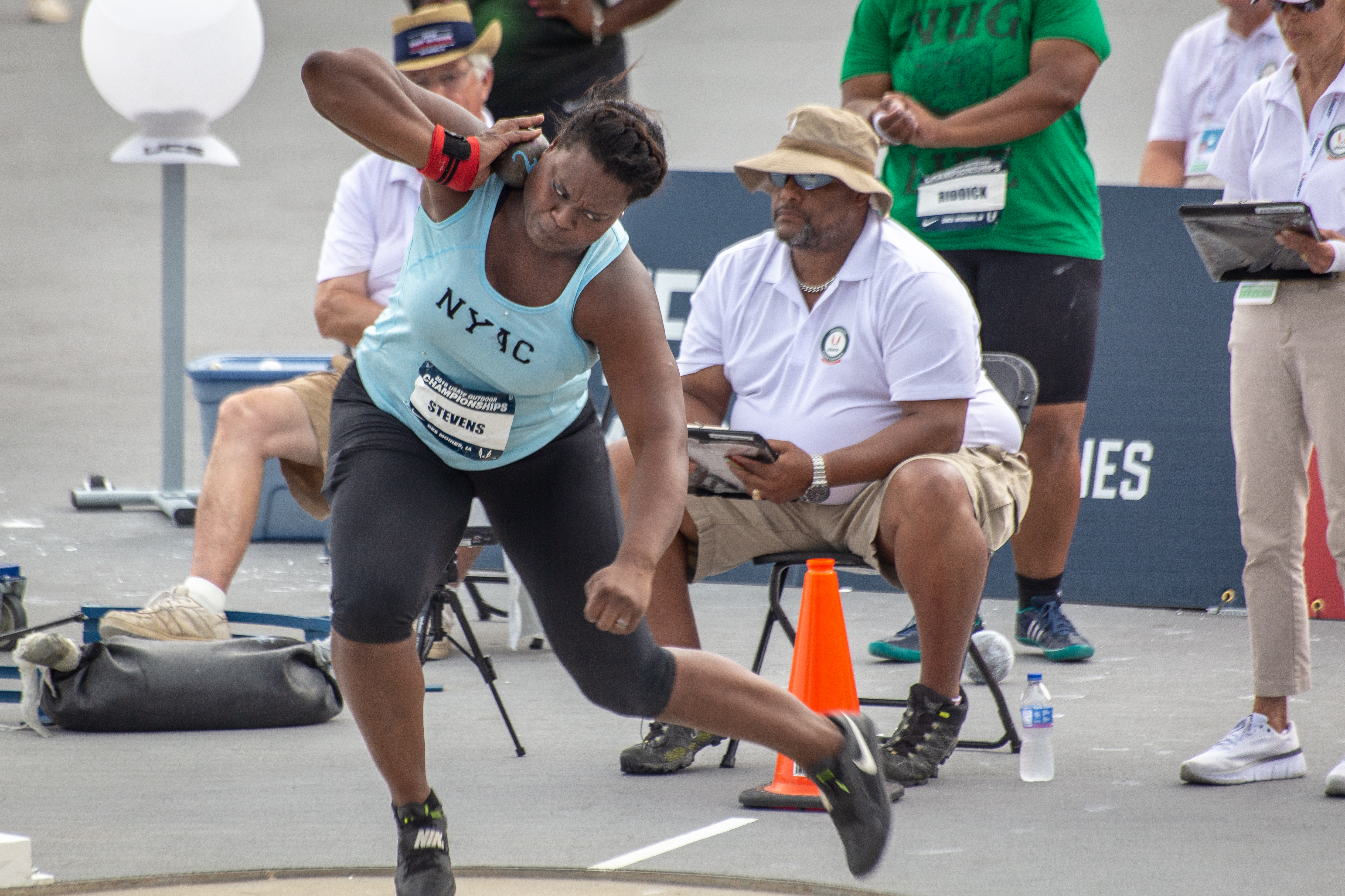 Jeneva Stevens competes in the shot put. Photos from the 2018 national track and field championship, held at Drake Stadium in Des Moines, Iowa.